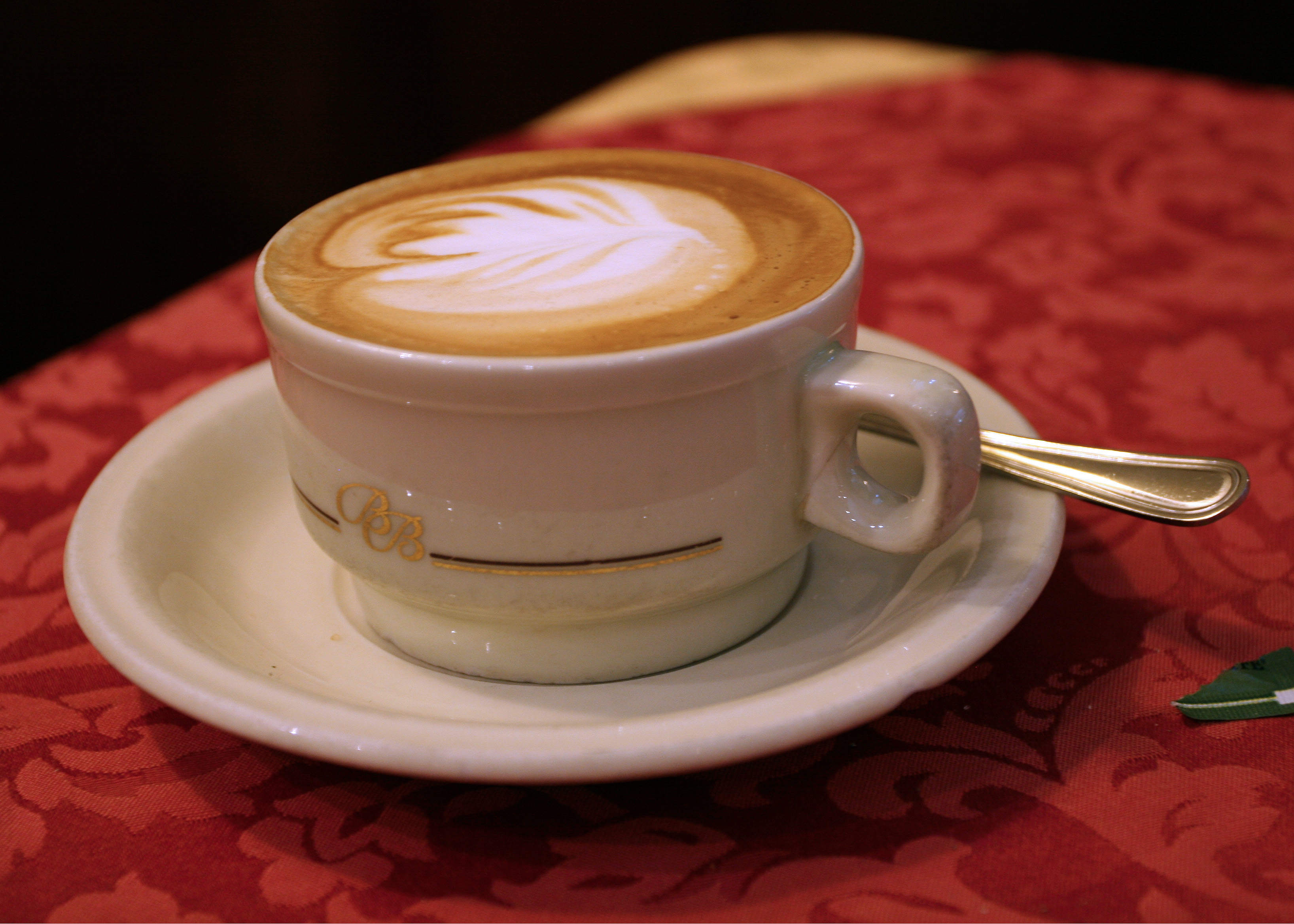 Cappuccino in Milan, Italy. One of the best things about Italy, it's hard to find a bad coffee.